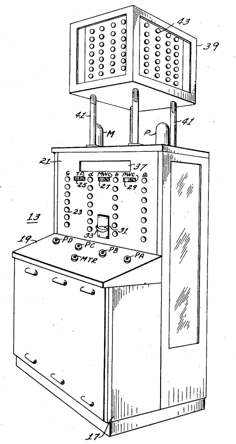 Nimatron image from the patent